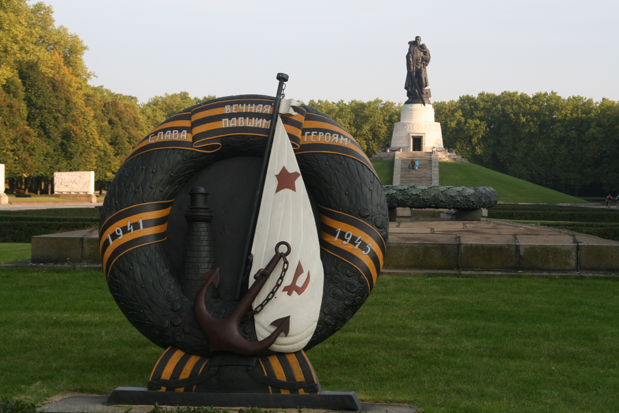 Description: Soviet Cenotaph Berlin Treptower Park Author: photographed by Matthias Trautsch